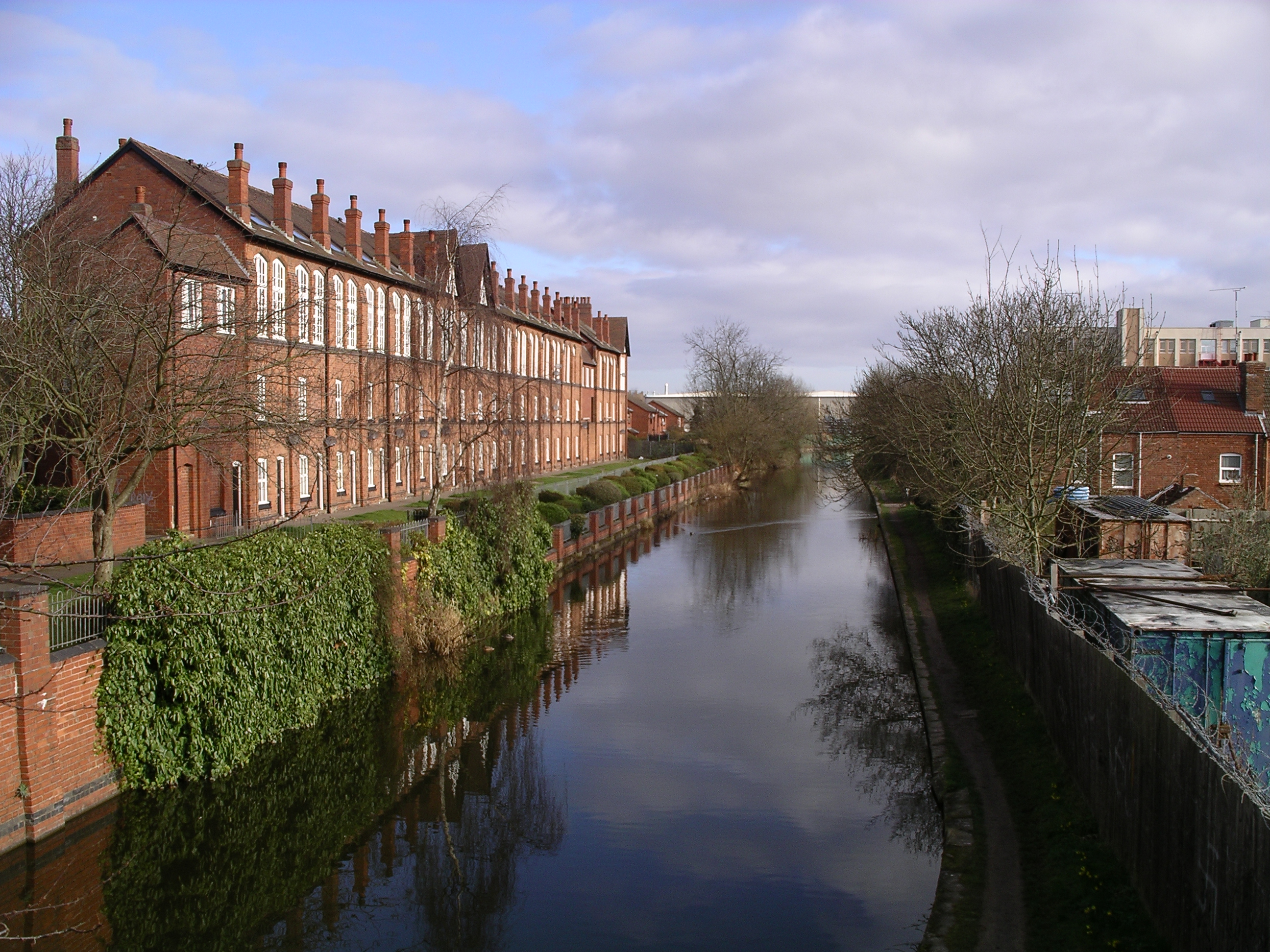 Coventry Canal. Photo taken from the bridge on Cash's Lane, Coventry, England.